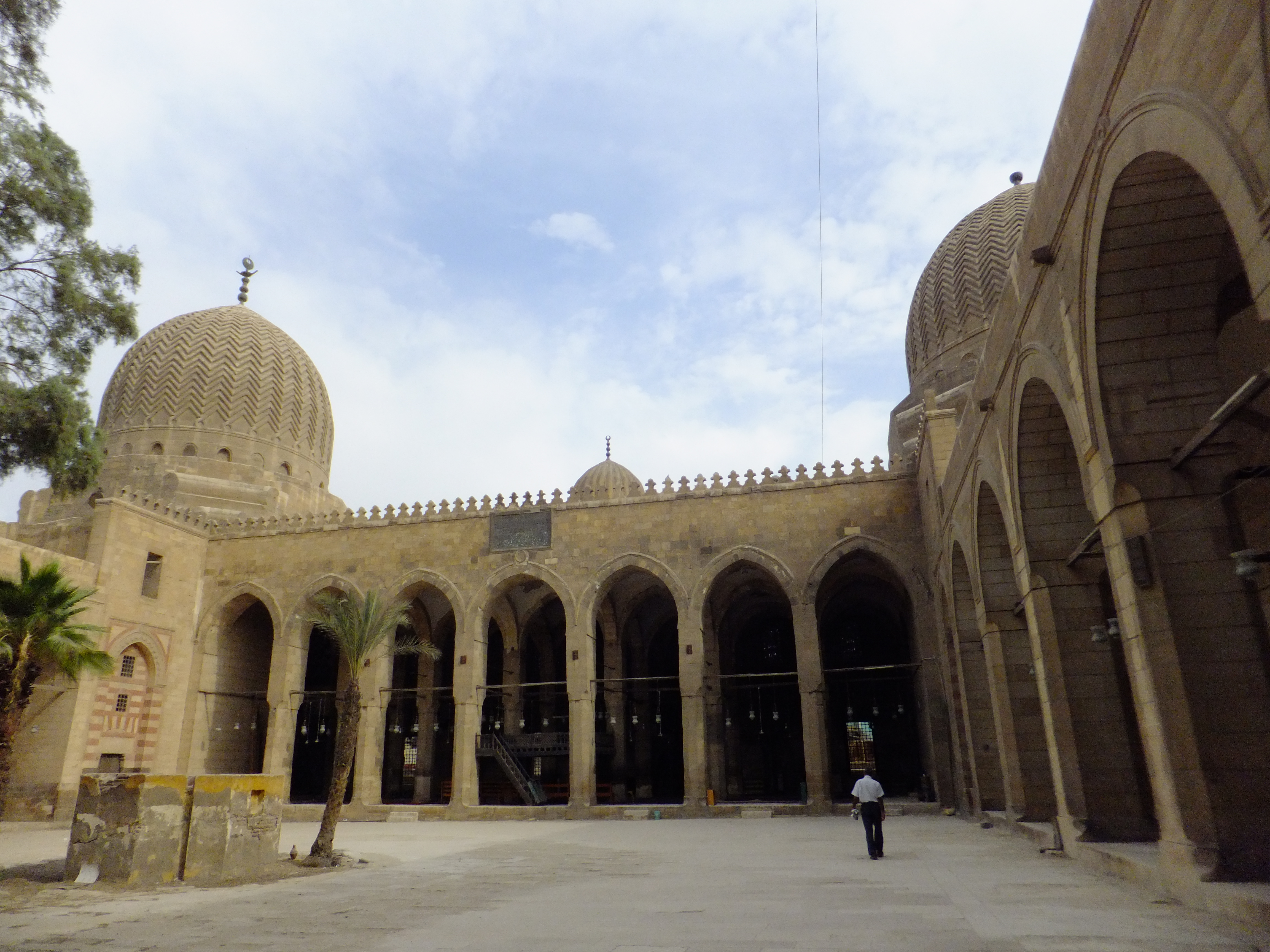 The courtyard of the Khanqah-mosque of Faraj ibn Barquq, in the Northern Cemetery, Cairo. View towards the prayer hall and the mausoleums (the large domes on the left and right).